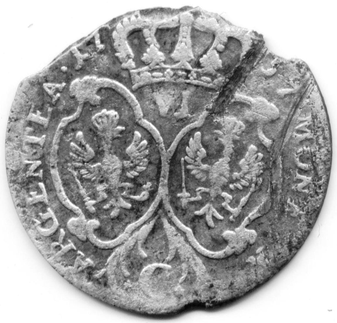 Mažučiai, Kretinga district, Lithuania